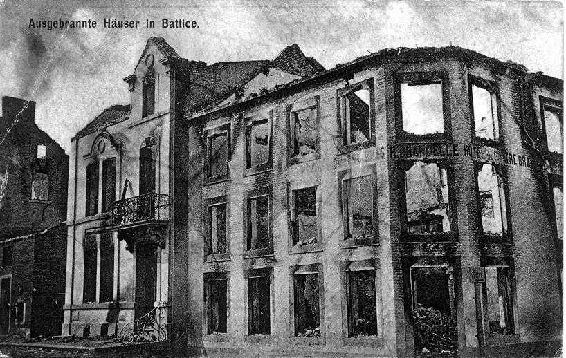 Burned down houses in Battice, Belgium